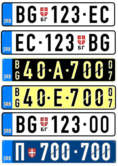 new Serbian vehicle rgistration number plates